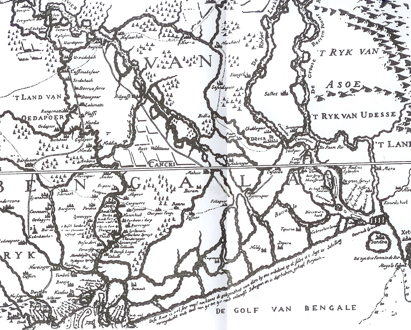 This is one of the earliest published maps of Bengal. This early map is, however, an inaccurate depiction. The map was published in 1660.